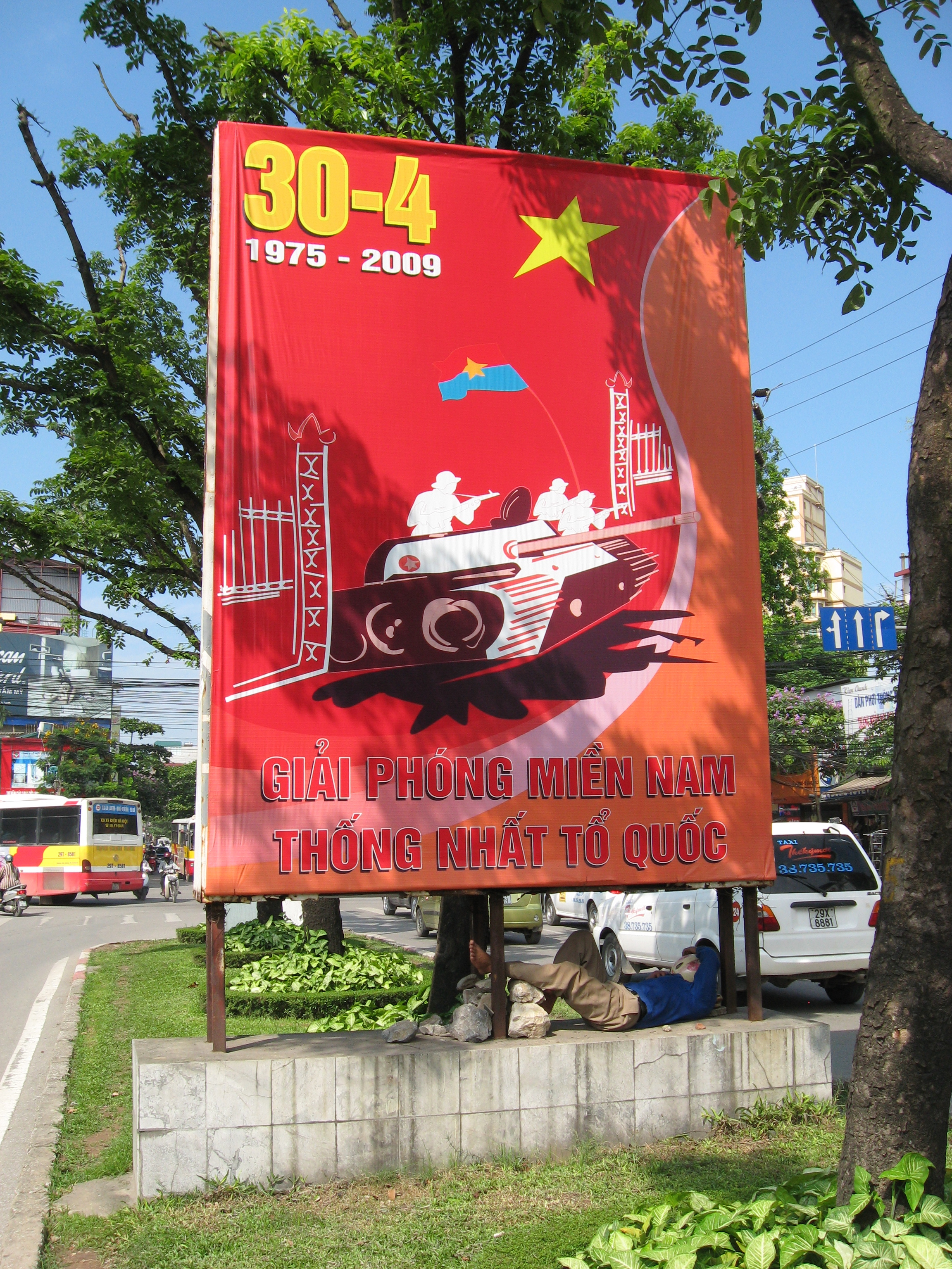 A sign commemorating the Communist victory in Saigon on April 30th, 1975, displayed in Hanoi. It depicts the climactic event of the Fall of Saigon, known inside Vietnam as the Liberation of Saigon: a North Vietnamese tank crashing through the gates of the South Vietnamese Presidential Palace, now known as Reunification Palace.